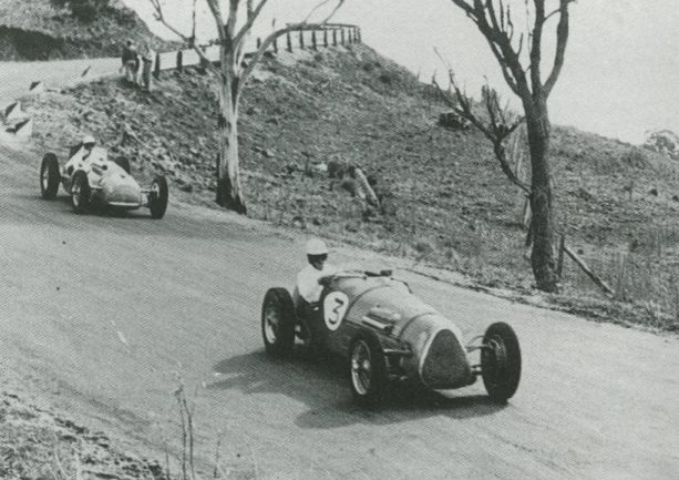 The Maybach of Stan Jones leading the 1952 Australian Grand Prix at the Mount Panorama Circuit, Bathurst, New South Wales, Australia.